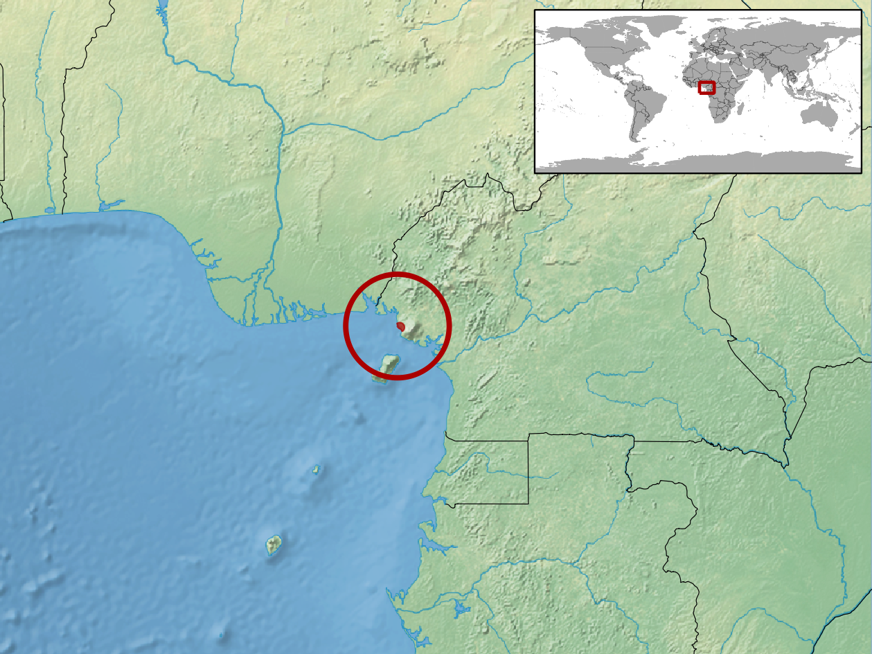 geographic distribution of Urocotyledon weileri (Native: Cameroon)